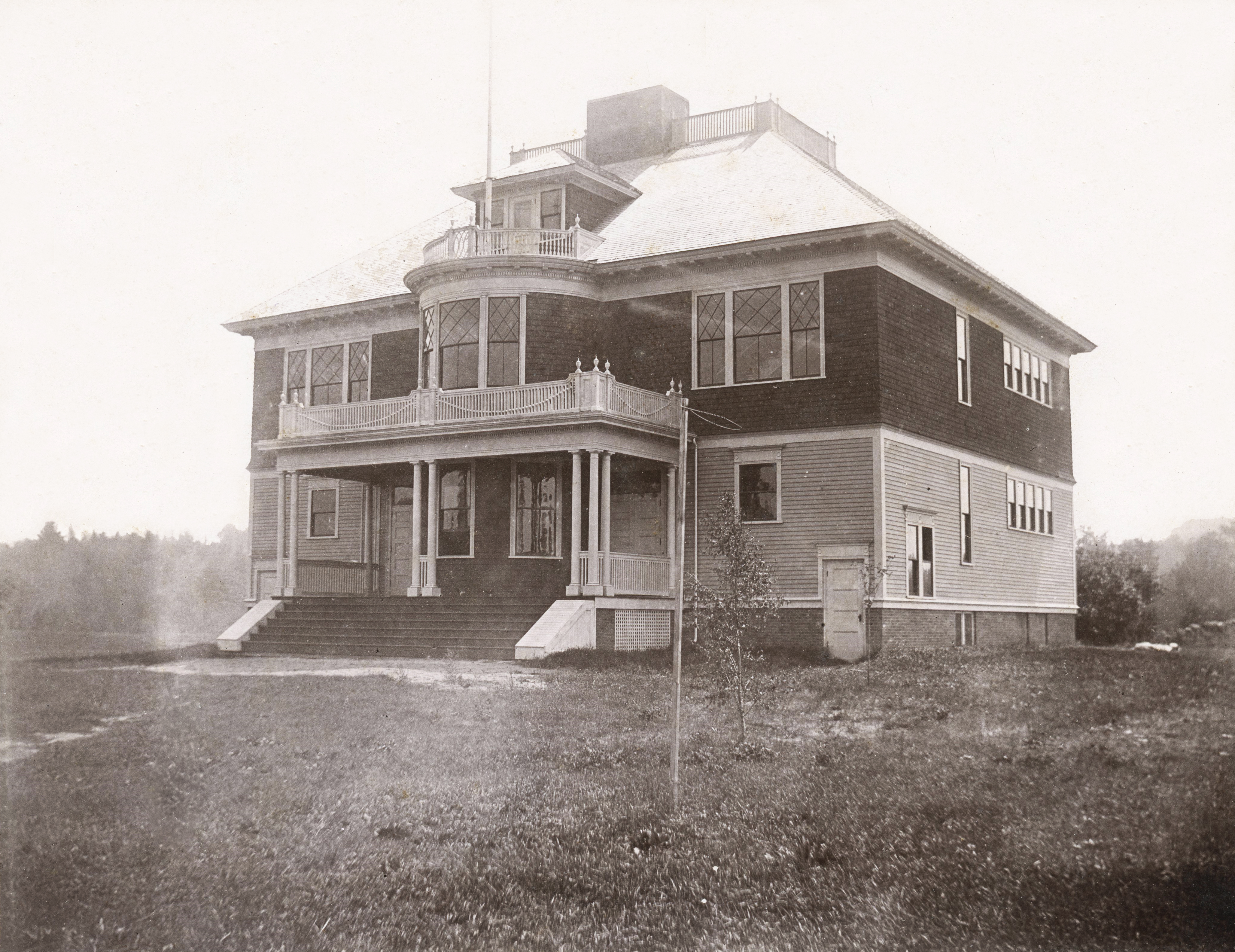 Leavitt Institute building, Turner Center, Maine. A gift by Turner native and New York City businessman James Madison Leavitt endowed the building of the Leavitt Institute, a secondary school which graduated its first class in 1896. The last class graduated from the Institute in 1966. The school later took the name of the Leavitt Area High School and relocated to other quarters in Turner, Maine. Today the Leavitt Institute houses the Turner Public Library and the Turner Historical Museum.